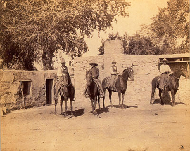 Apache Tejo, New Mexico: four horsemen in front of adobe house